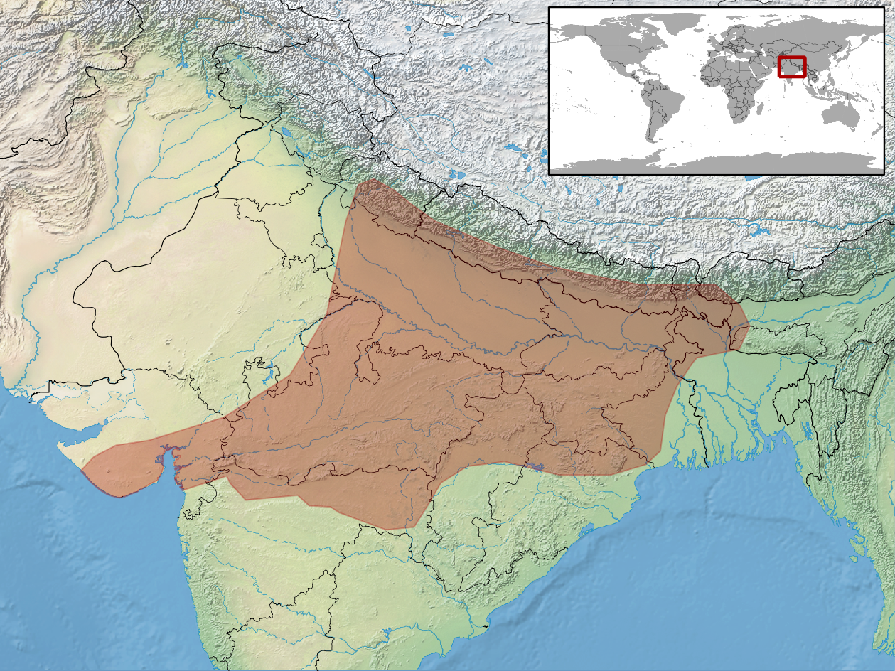 geographic distribution of Elachistodon westermanni (Native: Bangladesh; India (Bihar, Gujarat, Madhya Pradesh, Maharashtra, Uttaranchal, West Bengal); Nepal)